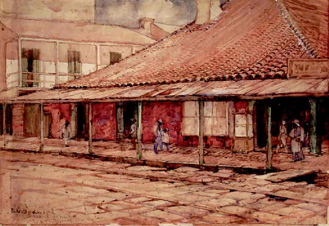 "Ursuline and Chartres, New Orleans". Painting of old building on corner of French Quarter, at uptown river corner of Ursulines & Chartres. Building no longer exists.